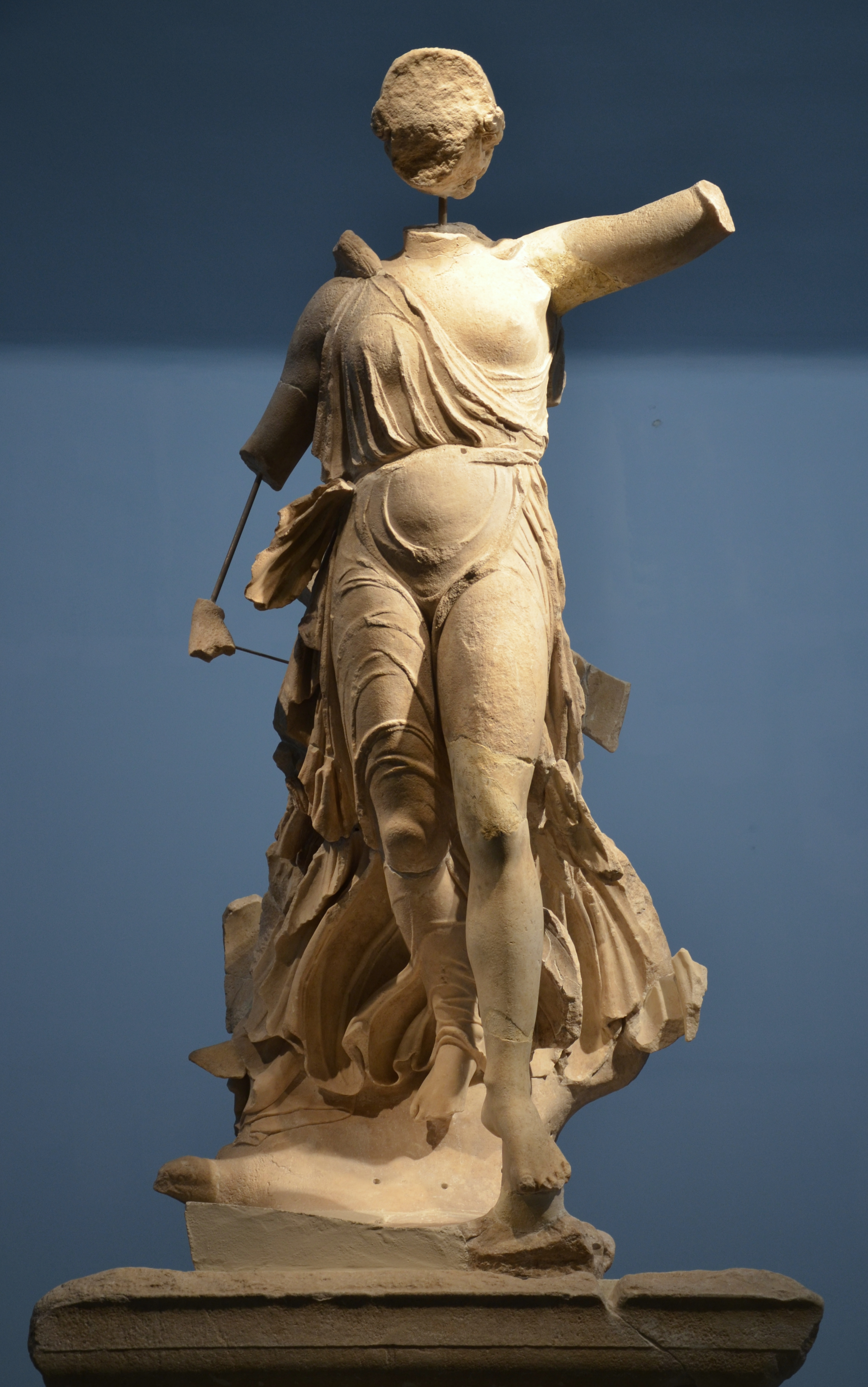 The statue depicts a winged woman. An inscription on the base states that the statue was dedicated by the Messenians and the Naupactians for their victory against the Lacedaemonians (Spartans), in the Archidamian (Peloponnesian) war prabably in 421 B.C. It is the work of the sculptor Paionios of Mende in Chalkidiki, who also made the acroteria of the Temple of Zeus. Nike, cut from Parian marble, has a height of 2,115m, but with the tips of her (now broken) wings would have reached 3m. In its completed form, the monument with its triangular base (8,81m high) would have stood at the height of 10,92m. giving the impression of Nike triumphantly descending from Olympos. It dates from 421 B.C.